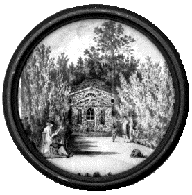 A contemporary engraving of Scott's Grotto at Amwell